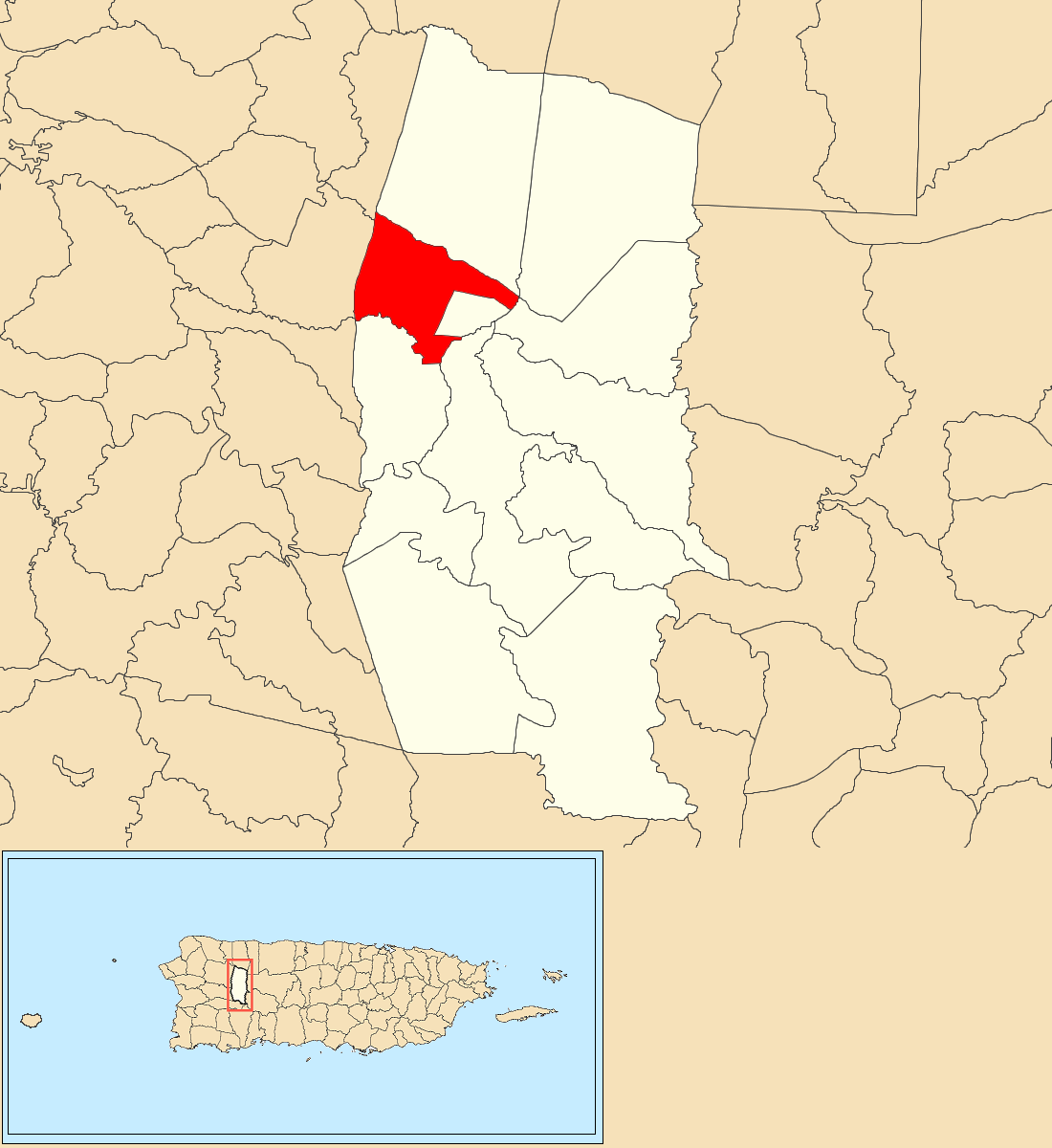 Pueblo, Lares, Puerto Rico locator map